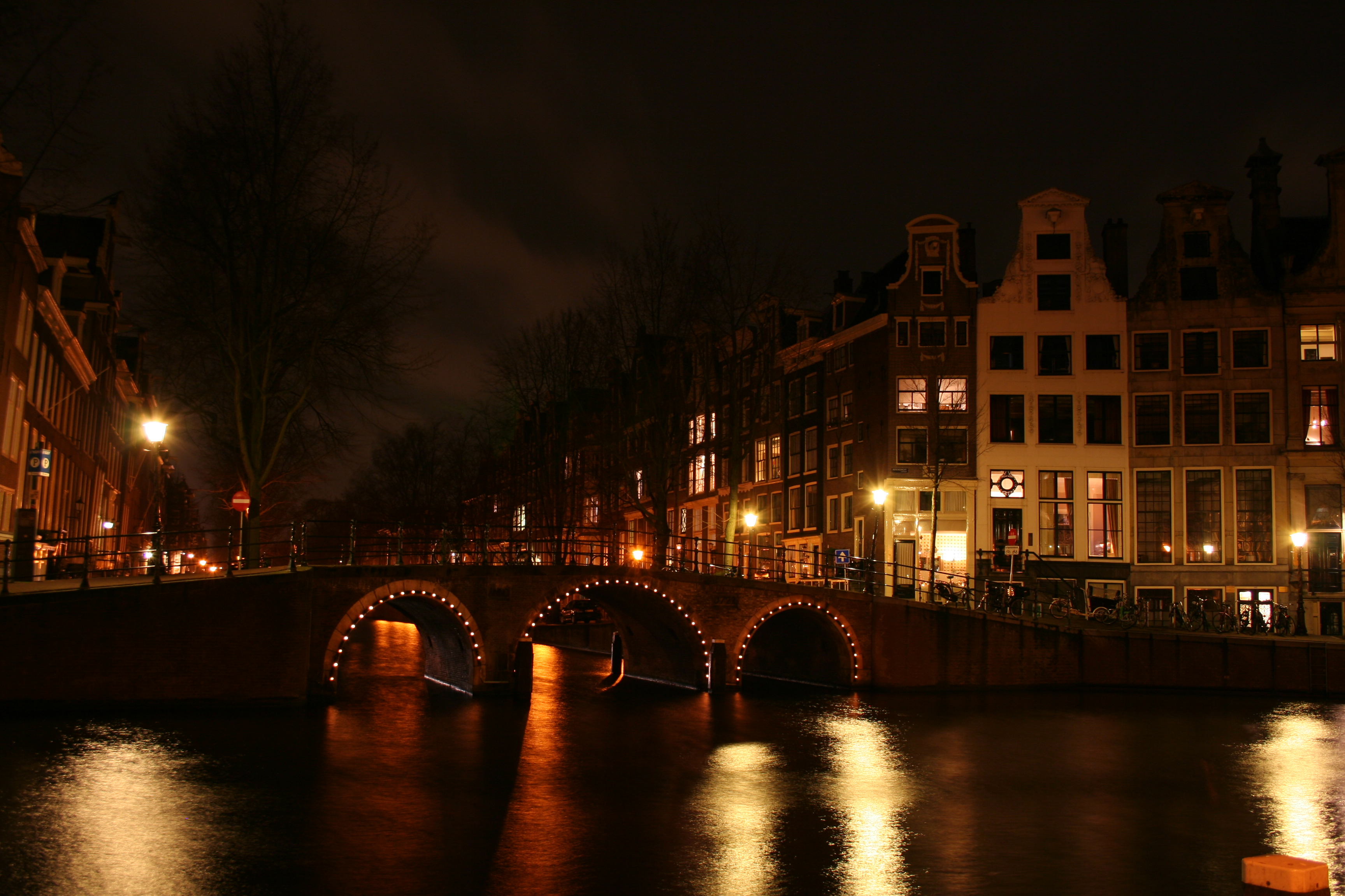 A photograph taken of the Herengracht in Amsterdam at night.